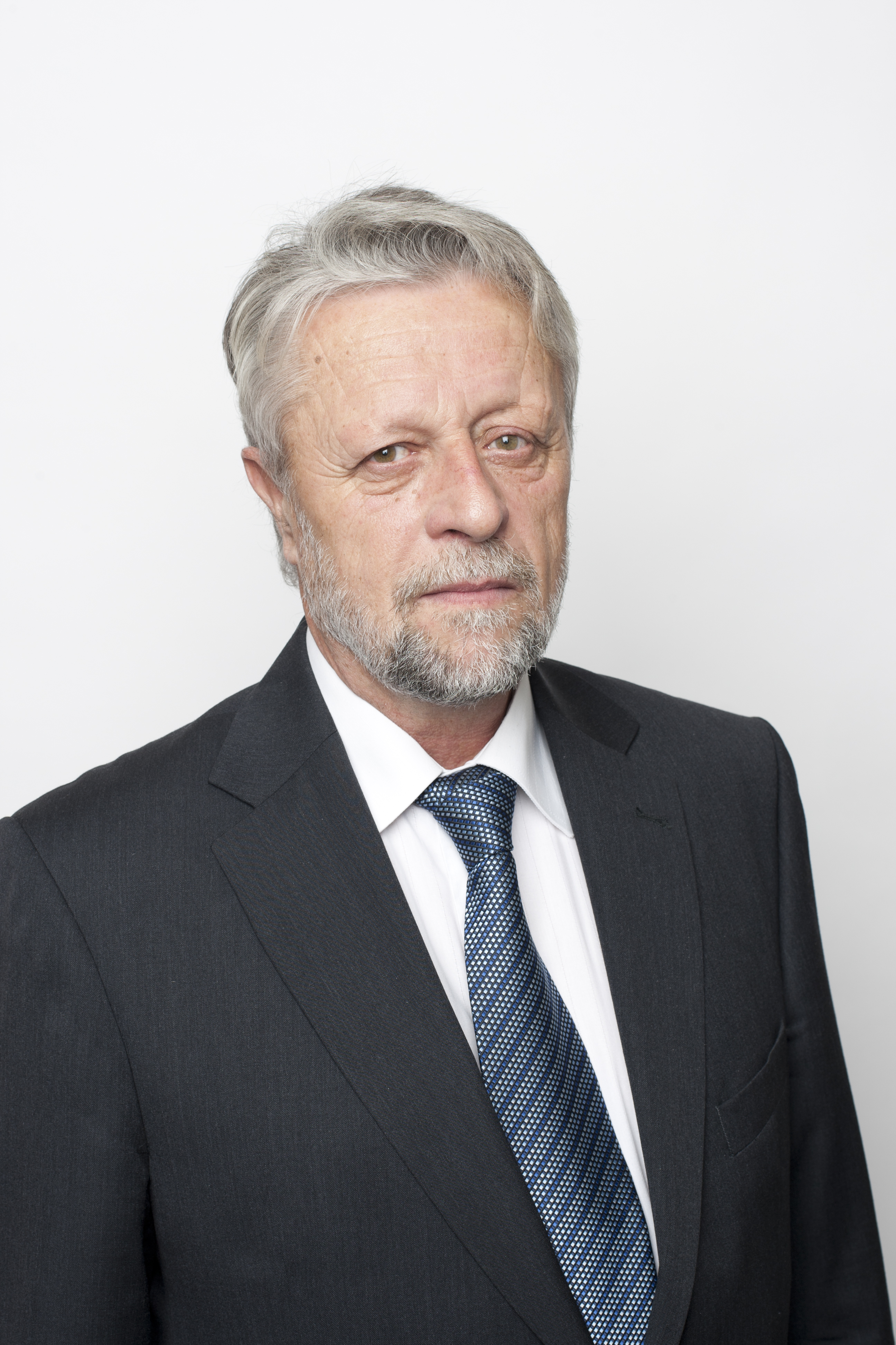 Czech politician Mgr. František Bublan, from 2012 member of the Senate of the Parliament of the Czech Republic